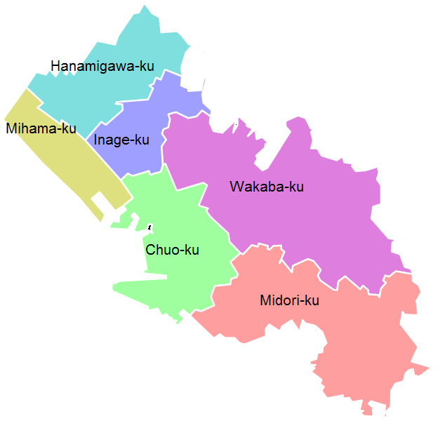 Wards of Chiba city in the Chiba Prefecture, Japan